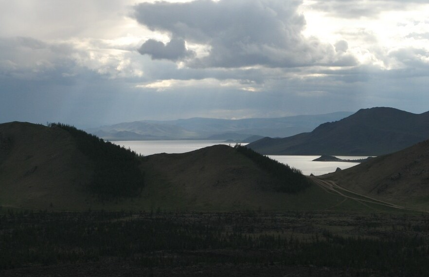 View of the Terkhiin Tsagaan Nuur lake from the Khorgo volcano